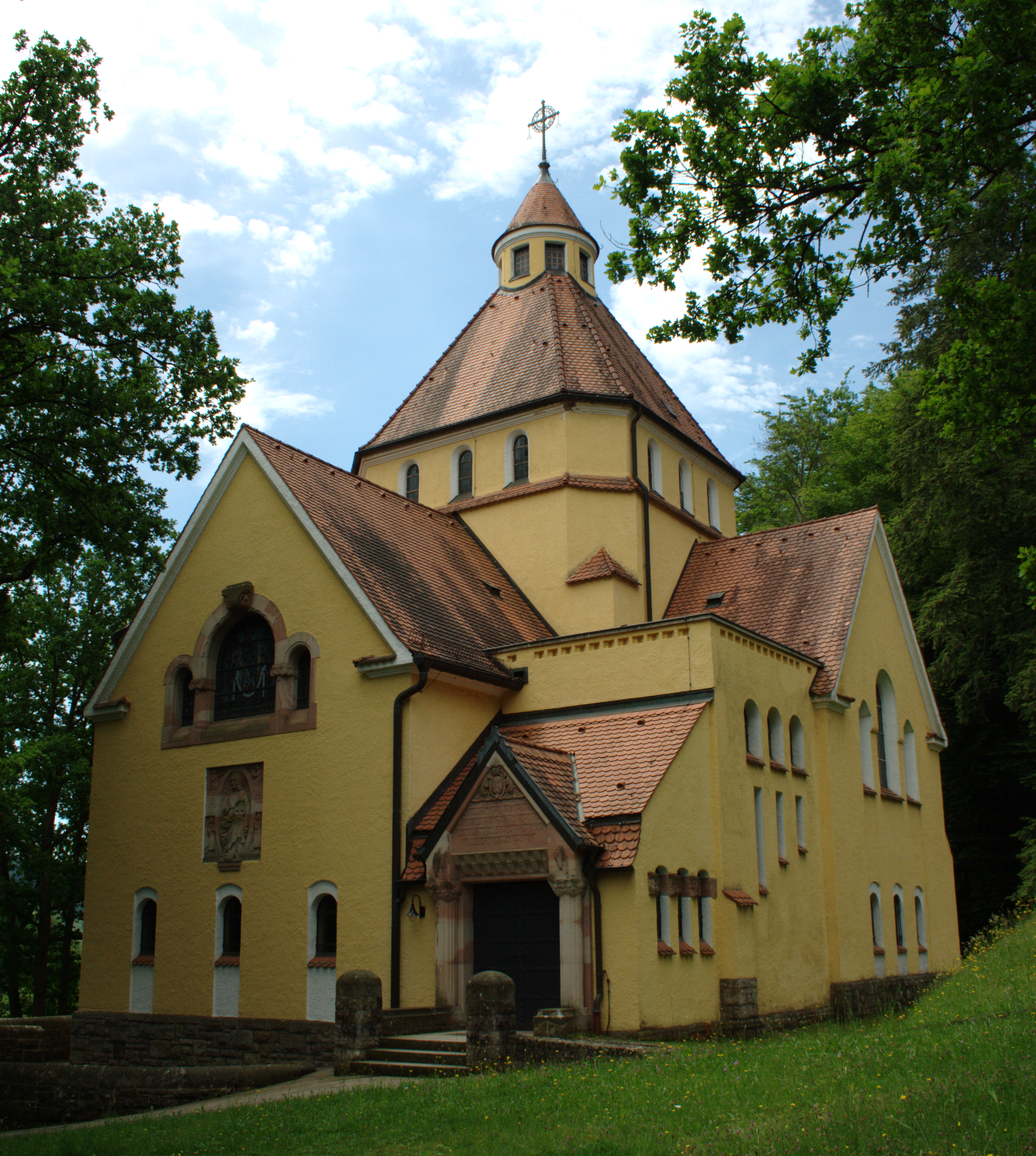 Church, Bad Kissingen, Bavaria, Germany